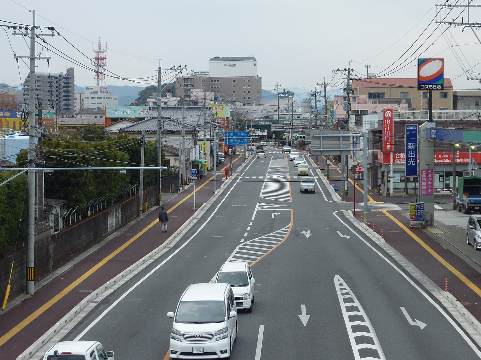 The National Route 218 Ends in Nobeoka City, Miyazaki Prefecture, Japan.